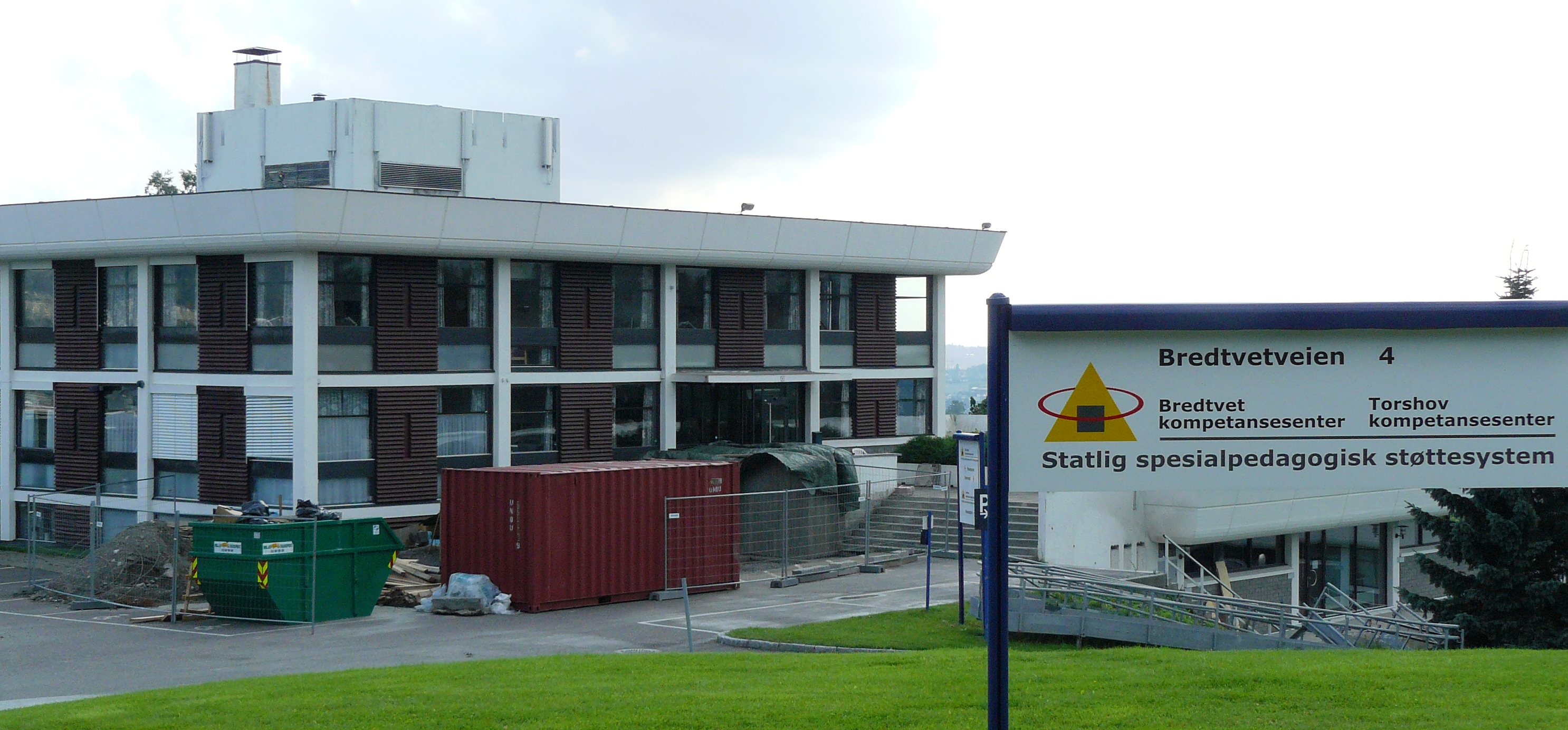 Bredtvet kompetansesenter in Oslo, a centre for special education, specialized in speech impairment